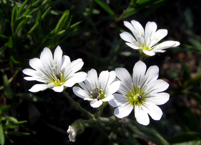 Ясколка жигулевская